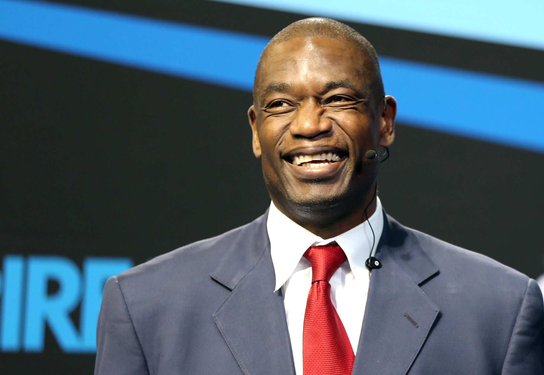 Former NBA center Dikembe Mutombo speaks at the Aspire4Sport Congress in Doha. Picture by Vinod Divakaran